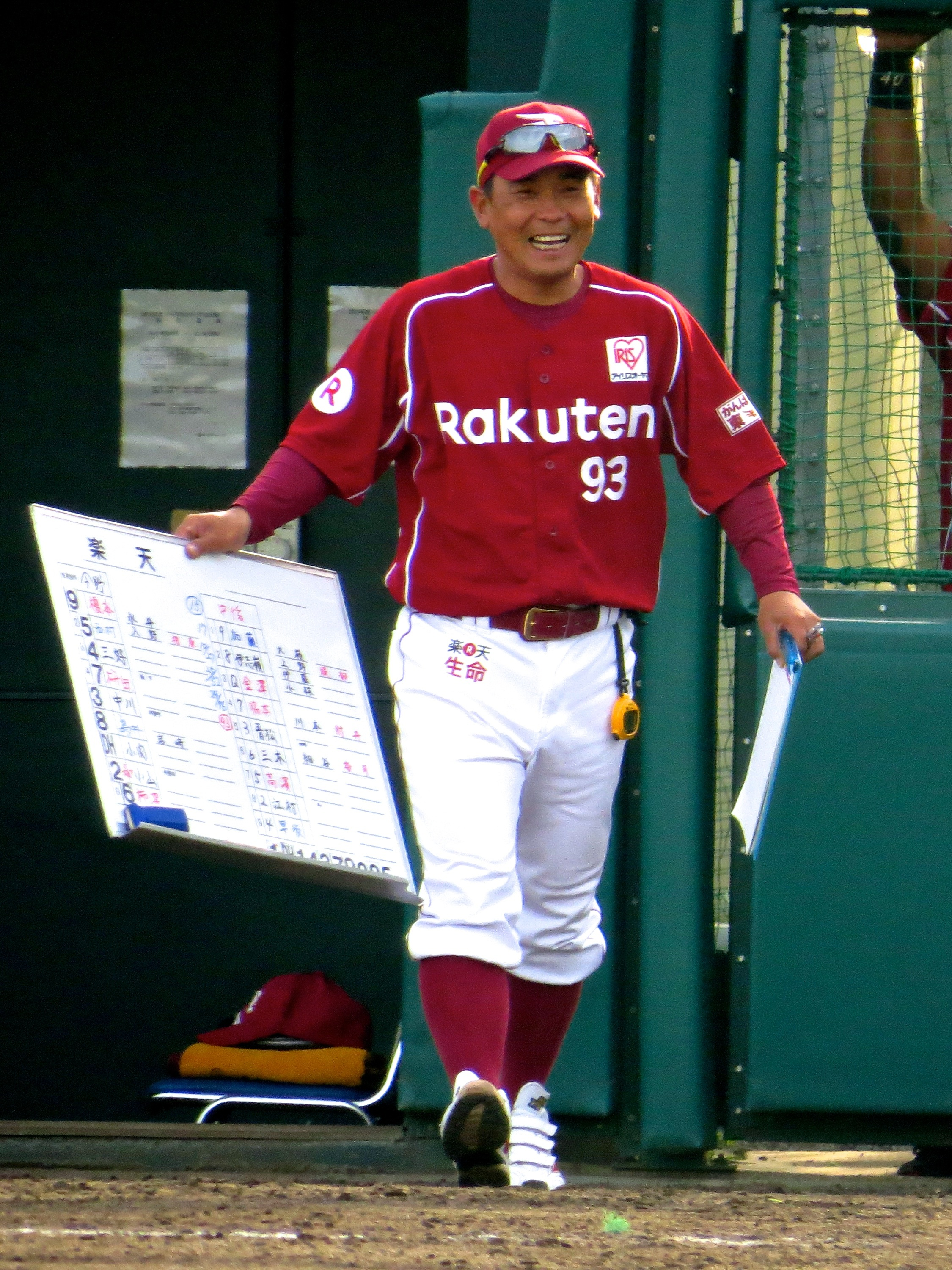 Daisuke Kusano, coach of the Tohoku Rakuten Golden Eagles, at Lotte Urawa Baseball Ground.